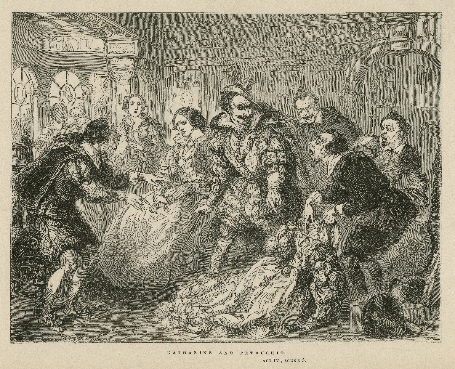 A mid-19th century print of Act IV, Scene iii of The Taming of the Shrew: Petruchio rejects the tailor's gowns for Katherine.